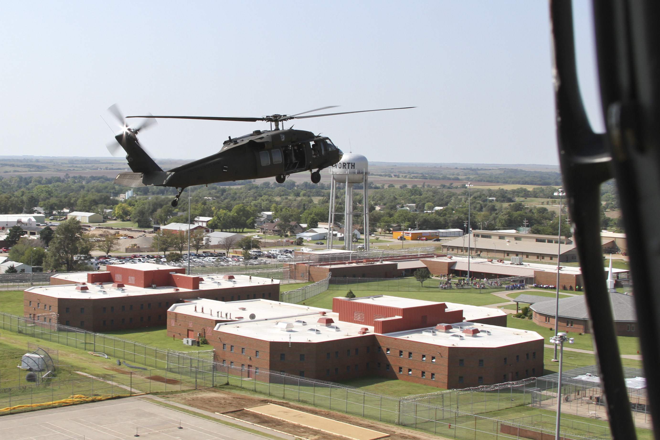 Soldiers with the 1st Battalion, 108th Aviation Regiment, Kansas Army National Guard, and Ellsworth Correctional Facility officers teamed up to conduct a prison riot suppression exercise at the Ellsworth prison, Ellsworth, Kansas, Sept. 24, 2014. The event, sponsored by the Kansas Department of Corrections, was to practice airborne tactical response to a crisis situation inside a prison. (Photo by Sgt. Zach Sheely, Public Affairs Office/RELEASED)